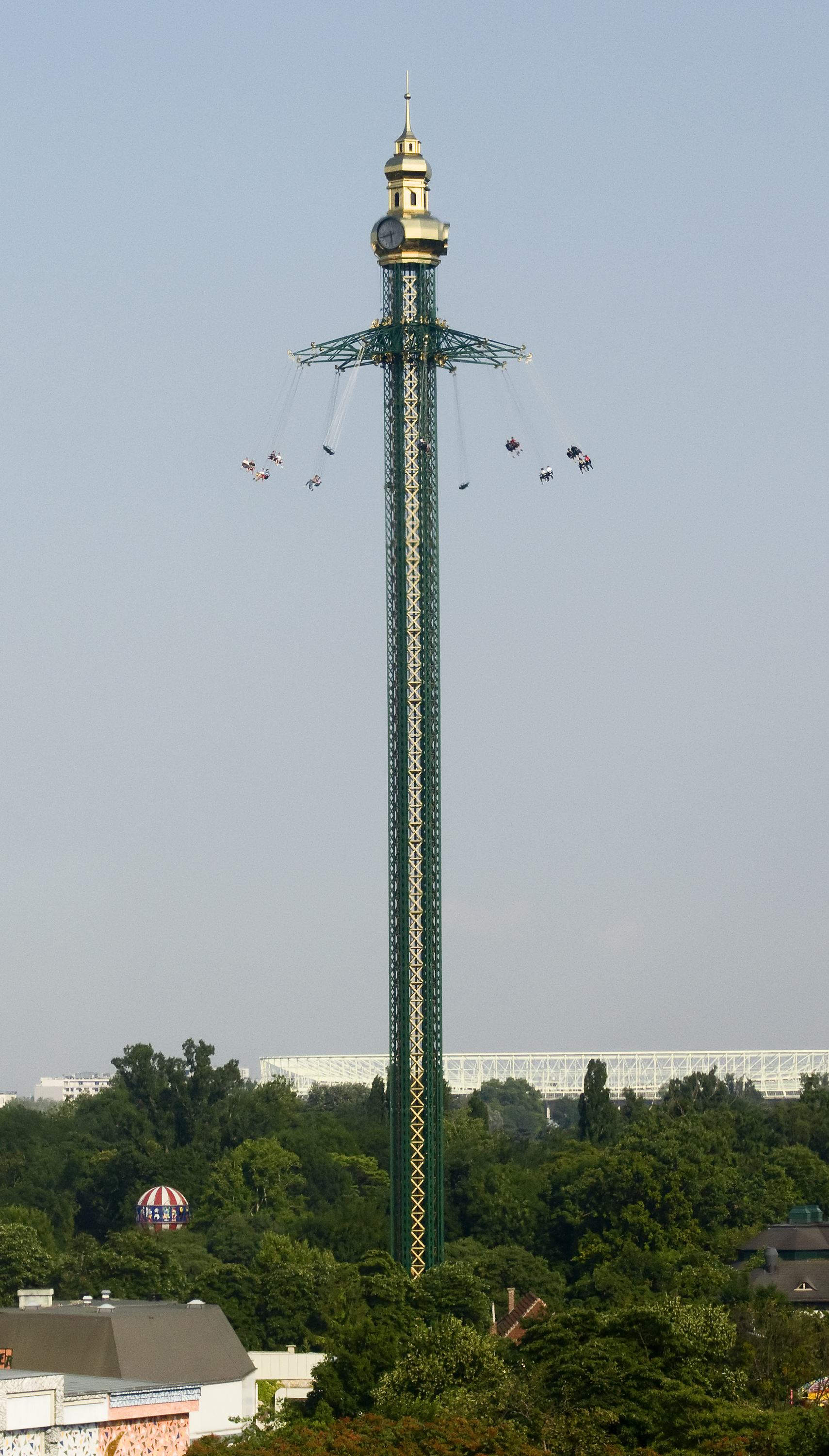 Carousel Praterturm in Wiener Prater